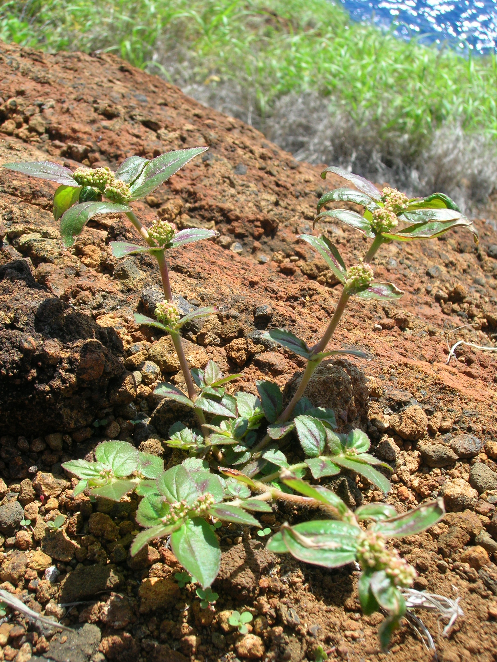 Chamaesyce hirta (fruitng). Location: Maui, Molokini